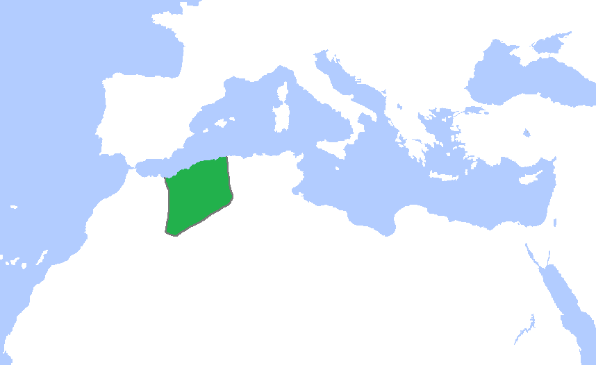 Locator map of the lands ruled by the Zayyanid/Abdalwadid dynasty, c. 1300-1500. (Partially based on Atlas of World History (2007) - The World 1200-1300, 1300-1400, 1400-1500 map)